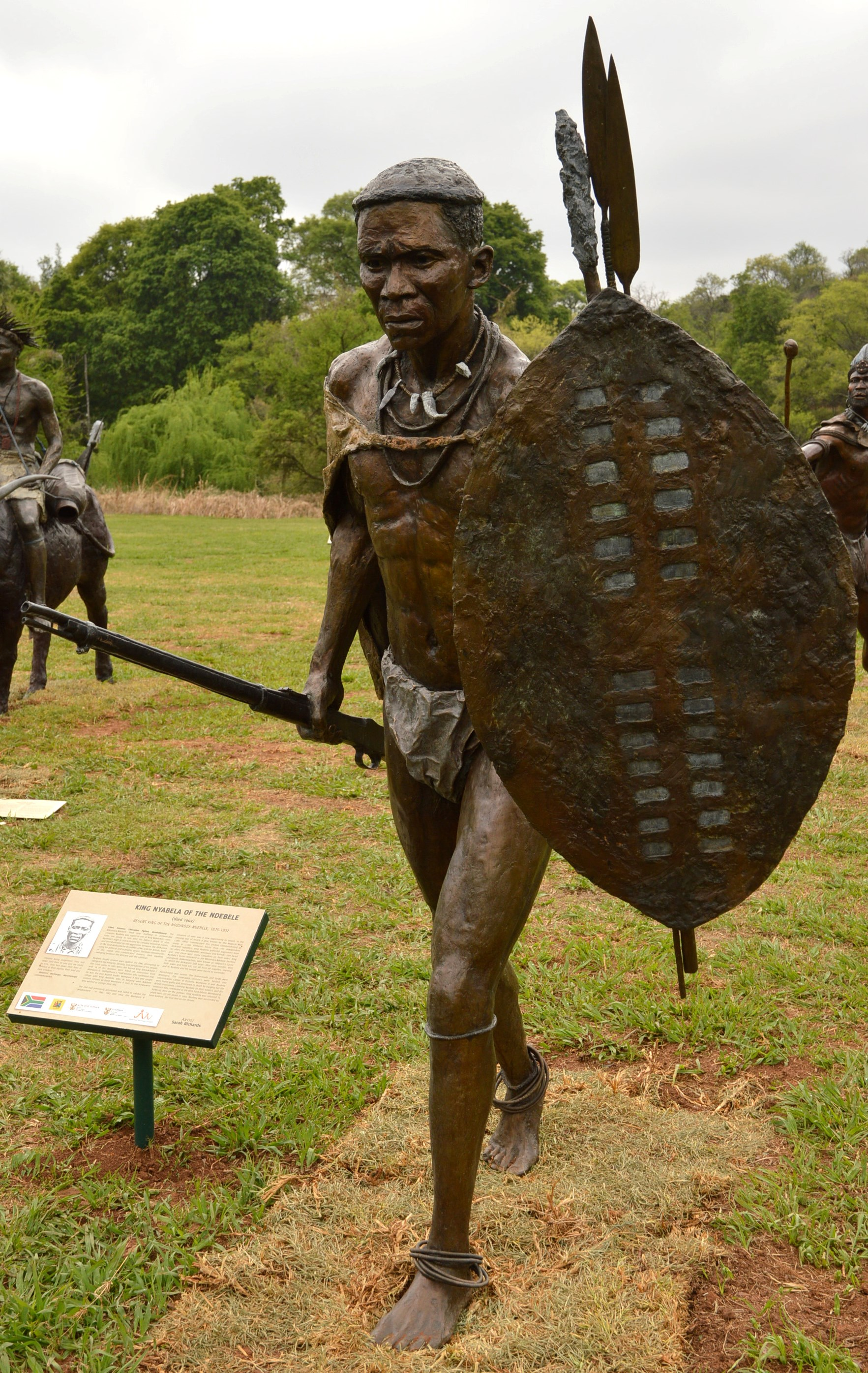 Life-size bronze sculpture of King Nyabela by artist Sarah Richards fro the National Heritage Project in Pretoria. During 1892 – 1893 King Nyabela fought what is known as the Mapoch War against the Boers and was defeated and sentenced to life imprisonment.